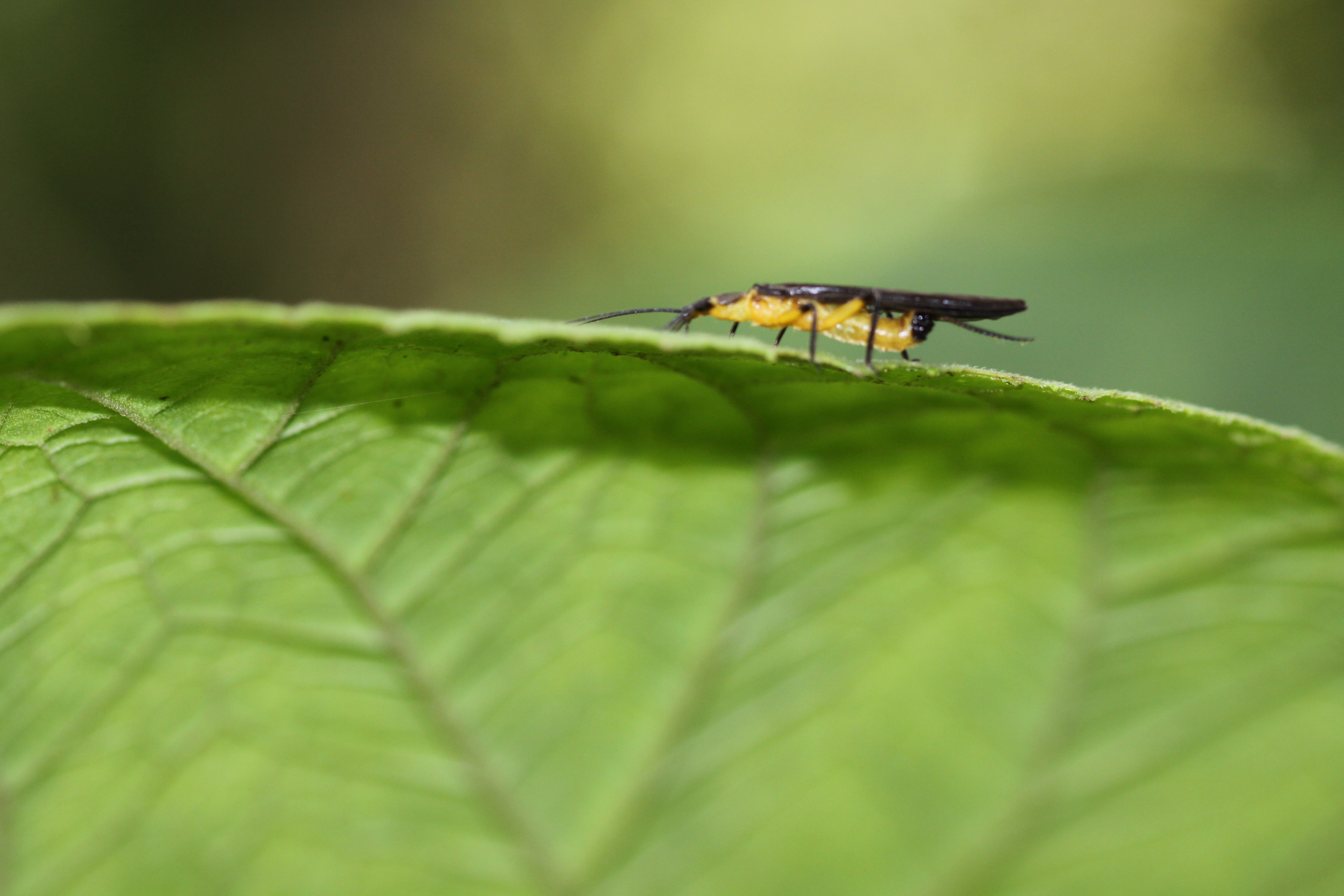 seen close to a creek in a lower montane rain forest Phylum: Arthropoda Class: Insecta Subclass: Pterygota Infraclass: Neoptera Superorder: Exopterygota Order: Plecoptera BURMEISTER, 1839 (stoneflies, Steinfliegen) Indonesia, W-Java, Puncak: Cibodas-Cibureum, ca. 1400-1700m asl.,17.06.2009 IMG_5781